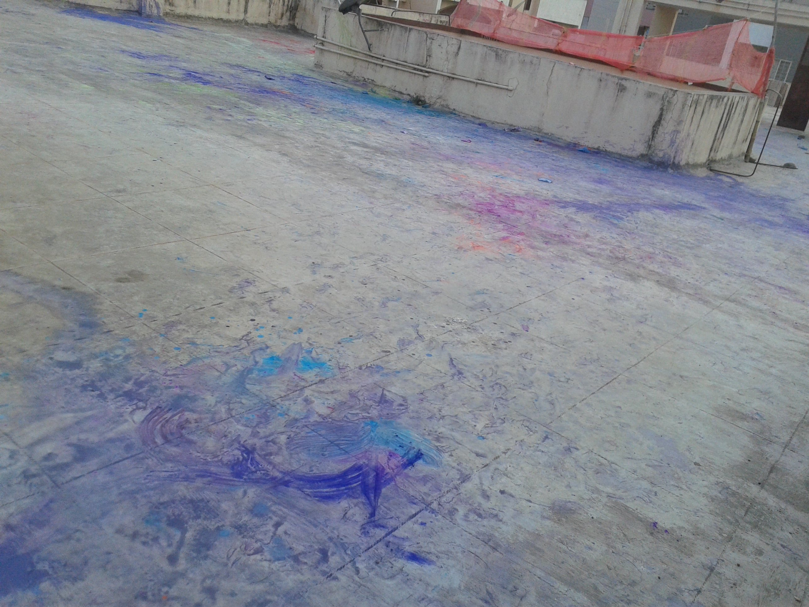 colors